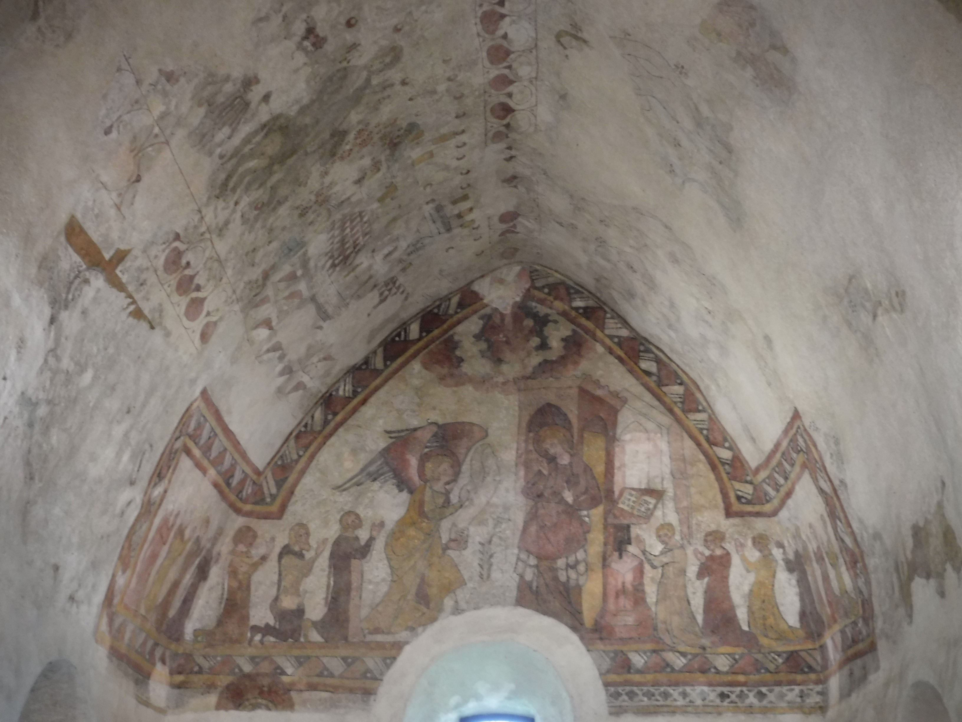 Mural "Annunciation" at Fishermen's Chapel, Jersey